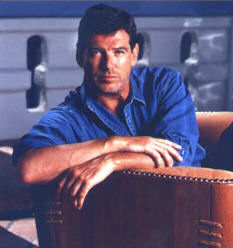 Pierce Brosnan in his days as Pacific Green's Environmental Spokesperson sitting in Cayenne lounge